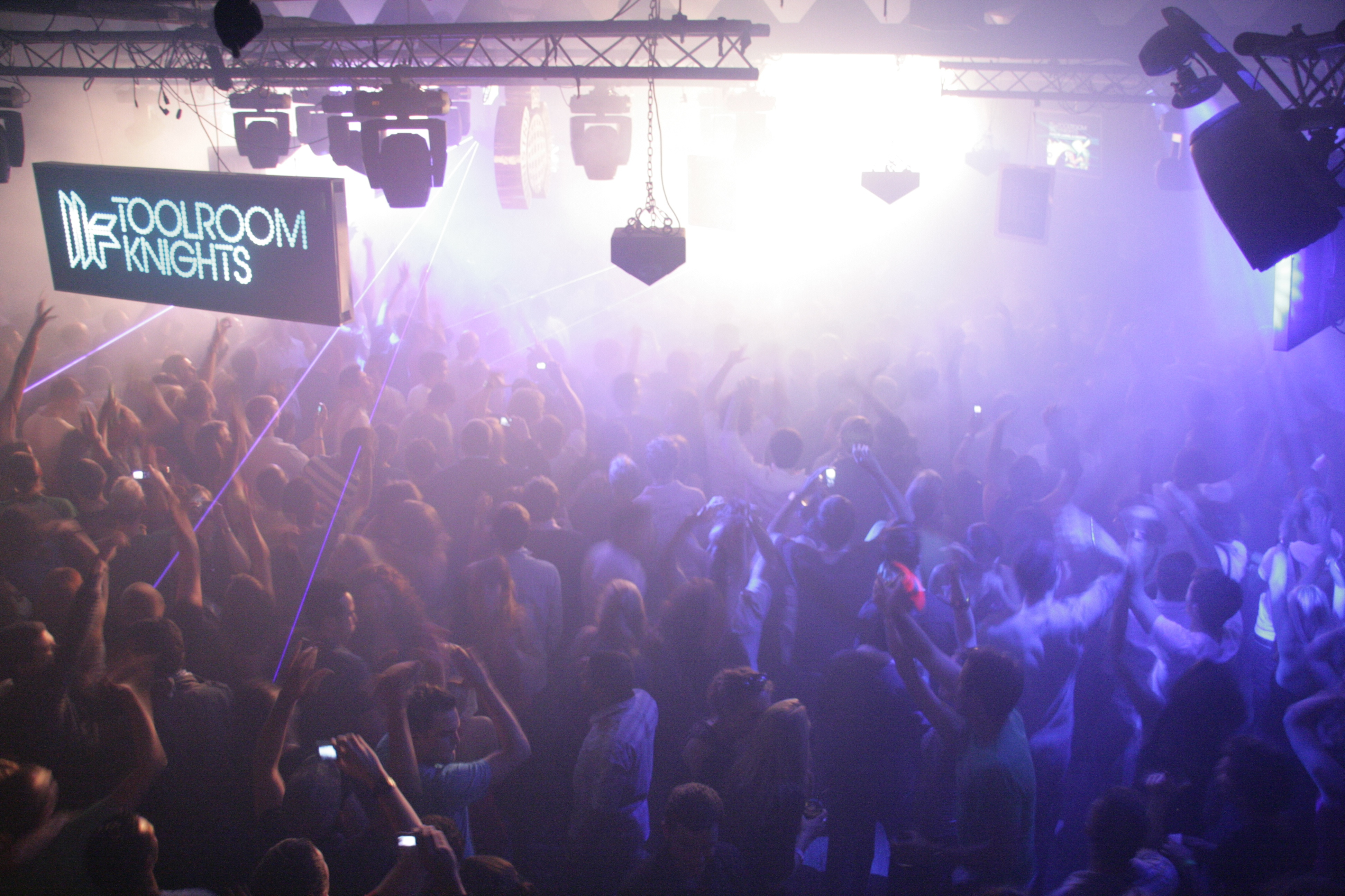 Toolroom Knights @ Ministry of Sound in London